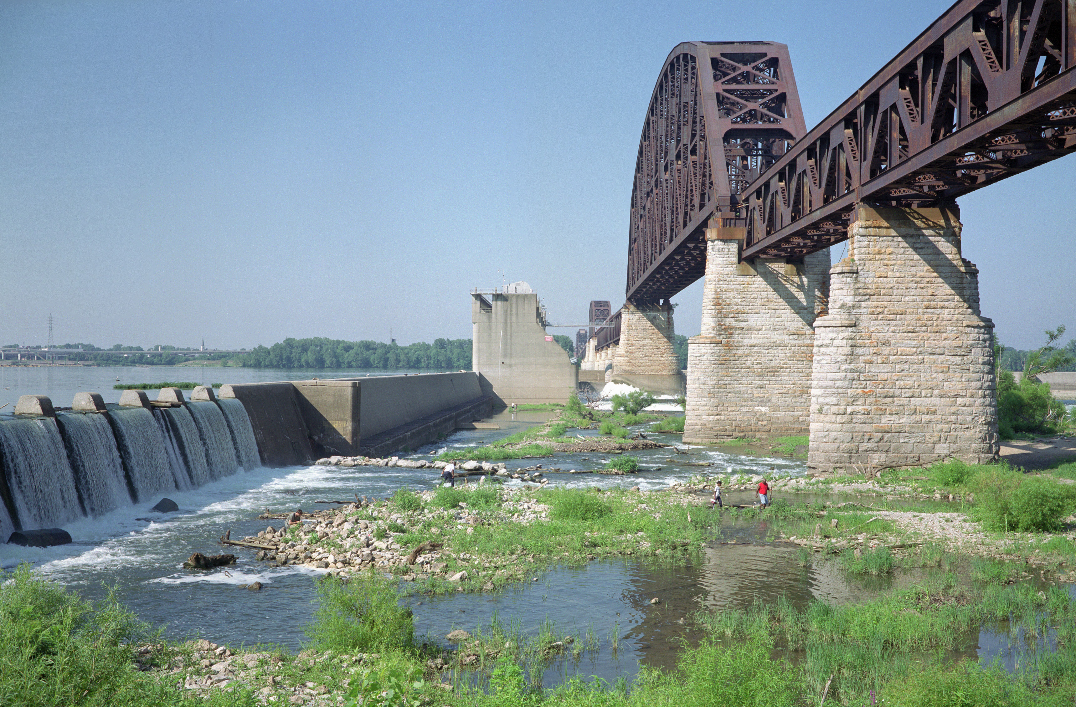 Looking SW from near Indiana end of Ohio Falls Bridge (Fourteenth Street Bridge; L&I Bridge) Part of McAlpine Dam can be seen at left, and several fishermen are in the area below the weirs in the dam Ohio River mile 605 Clarksville, Indiana, USA